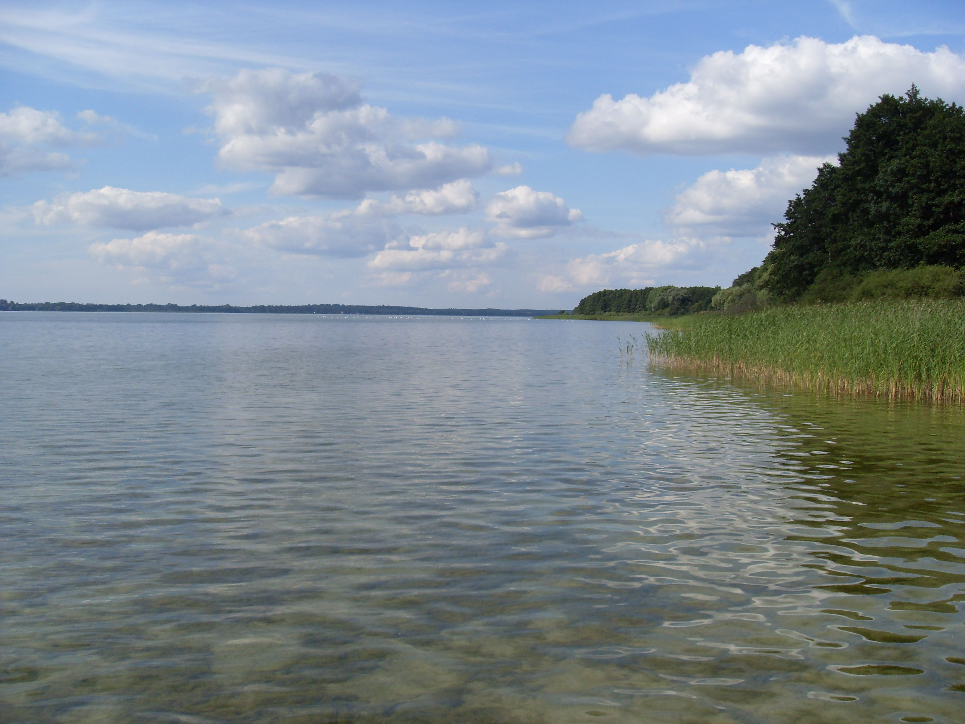 Jezioro Miedwie, (Madüsee) in the northwestern part of Poland